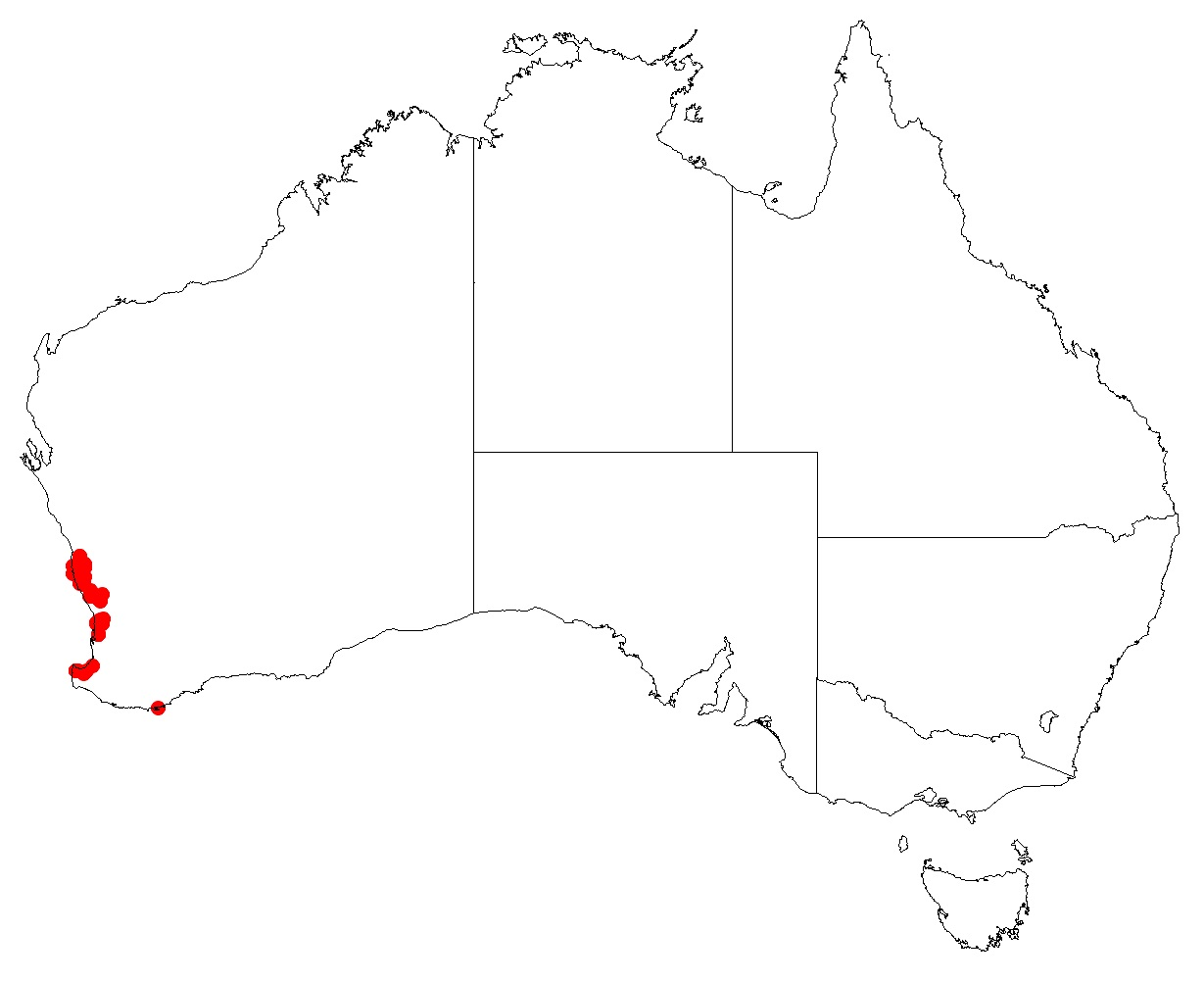 Phlebocarya filifolia Data CC from AVH Australia's Virtual Herbarium